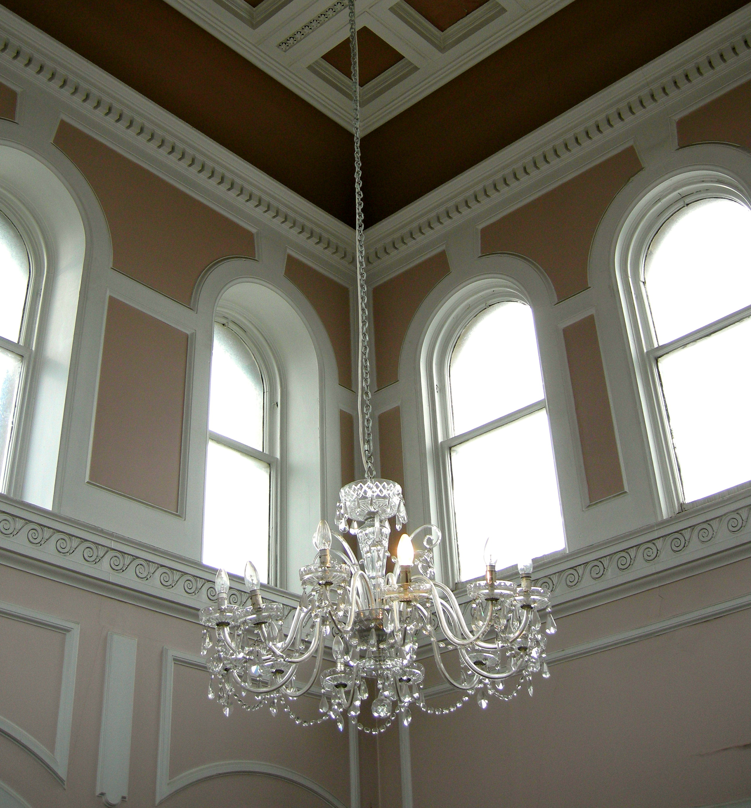 Bankfield Museum, Halifax, West Yorkshire, England. 53.43'.57".N; 1.51'.48".W.